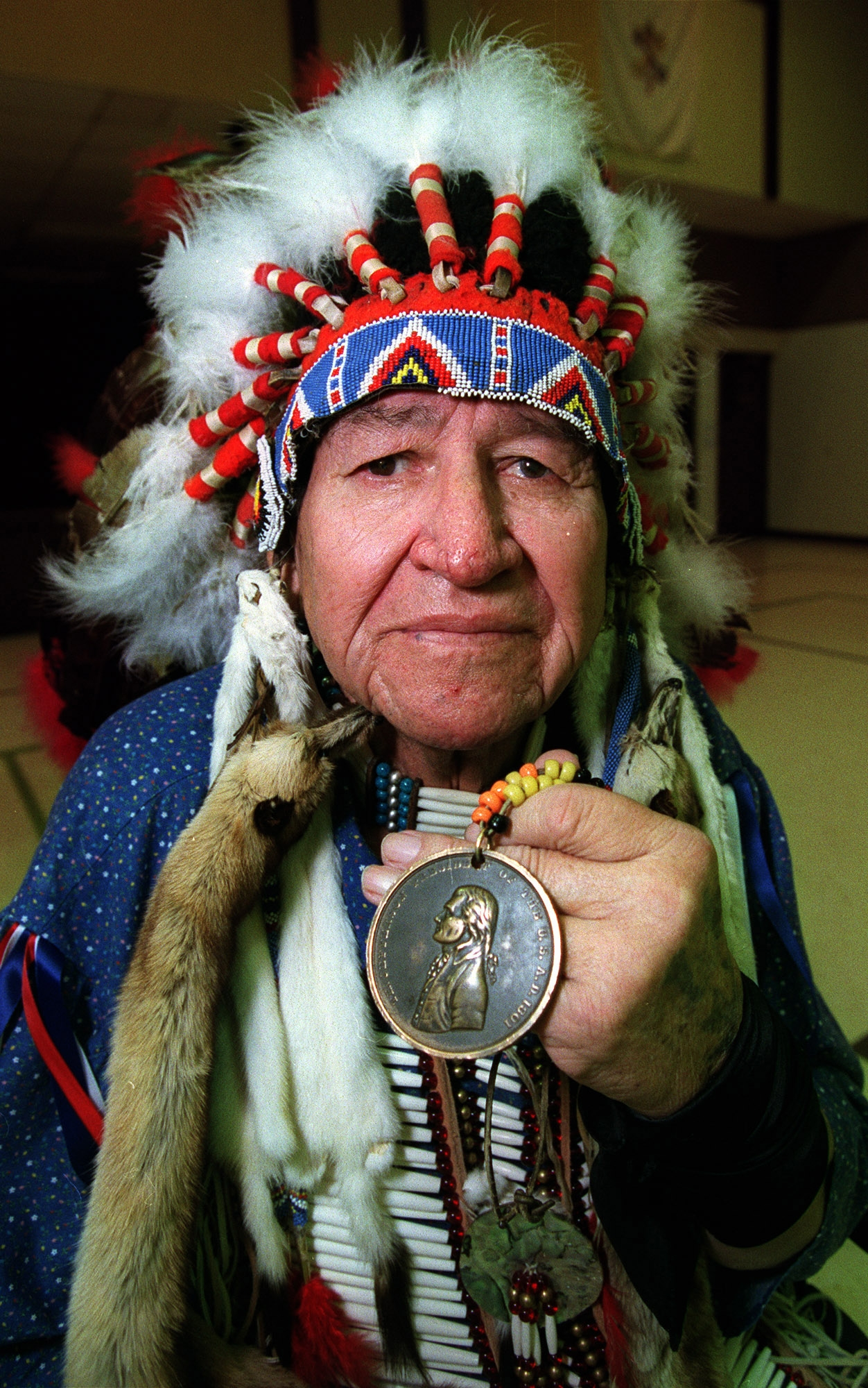 Indian artist Paha Ska, of Keystone, S.D., an Elder of the Oglala Sioux tribe from the Pine Ridge Reservation in South Dakota, holds an authentic Presidental Peace & Friendship Medalion from President Thomas Jefferson, Monday, Dec. 17, 2001, during a visit at St. Mary School in Elyria, Ohio, that was given to Indian leaders by the Lewis and Clark Expedition in 1803. Paha Ska, who is about 80 years old, talked about and answered questions about Native Indians. (Photo/Paul M. Walsh)